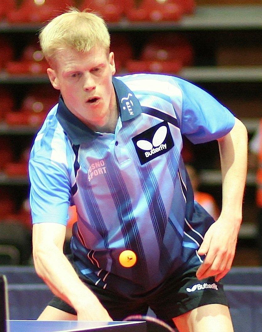 Gerben Last during European Para Table Tennis Championships 2009